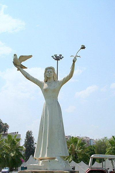 Peace Memorial, Mersin